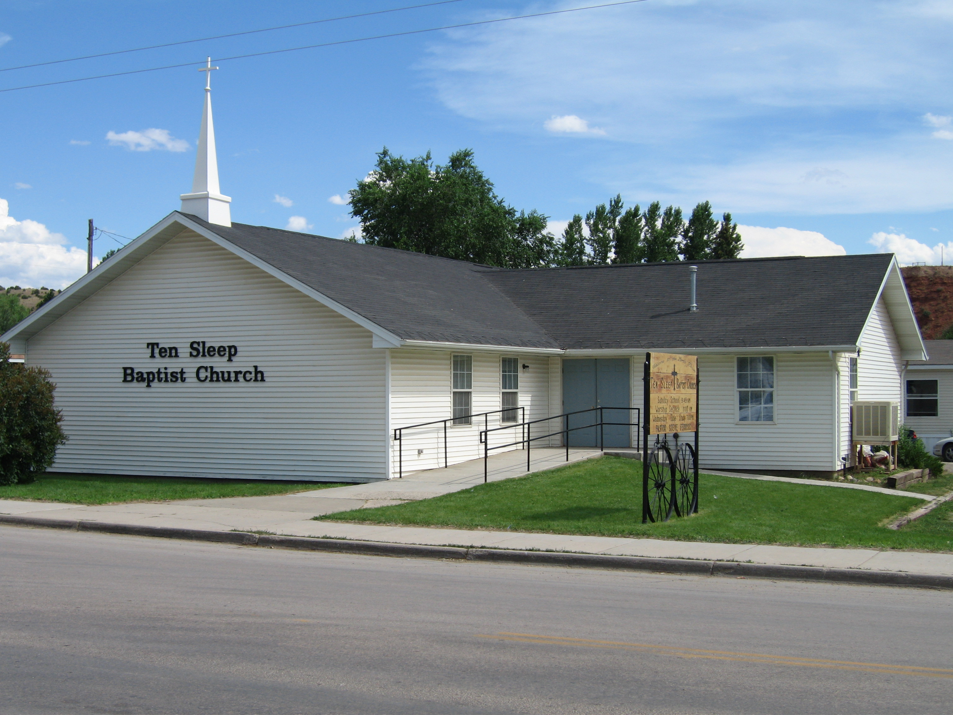 Baptist church in Ten Sleep.